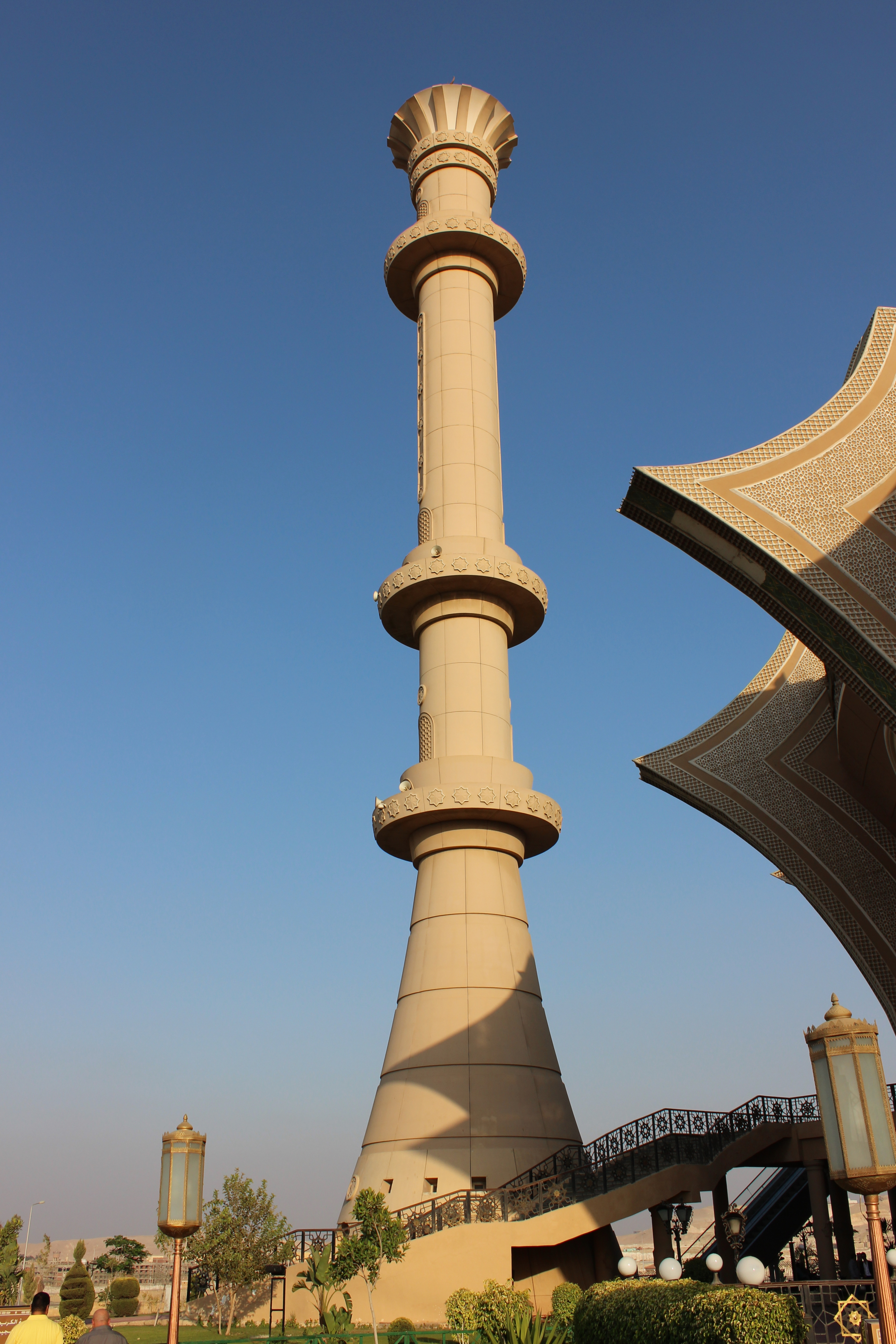 Minaret of Police Mosque, Egypt.